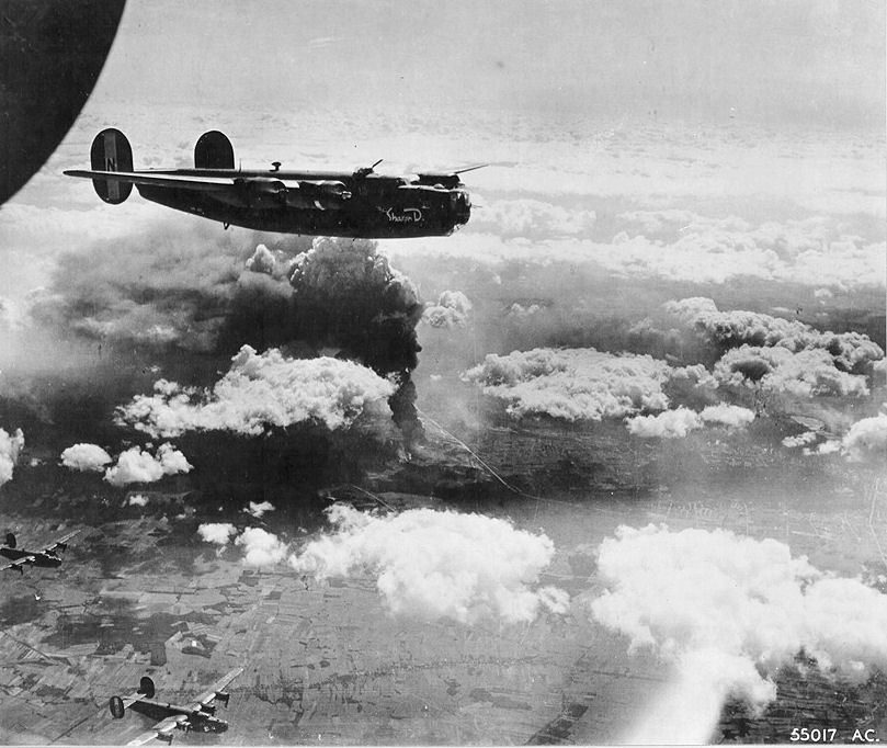 "The Sharon D" Ford B-24H-15-FO Liberator s/n 42-94759 845th Bomb Squadron, 489th Bomb Group, 8th Air Force. Named after the pilot, LtCol. Leon Vance's, daughter. Col. Vance won the Medal of Honor for the June 5,1944 mission to Wimereaux,France. He stayed with his dieing bomber to make sure all the crew bailed out safely, even after he knew he wouldn't get out himself. The medal was presented to his daughter on October 11,1946 when she was just 6 years old.